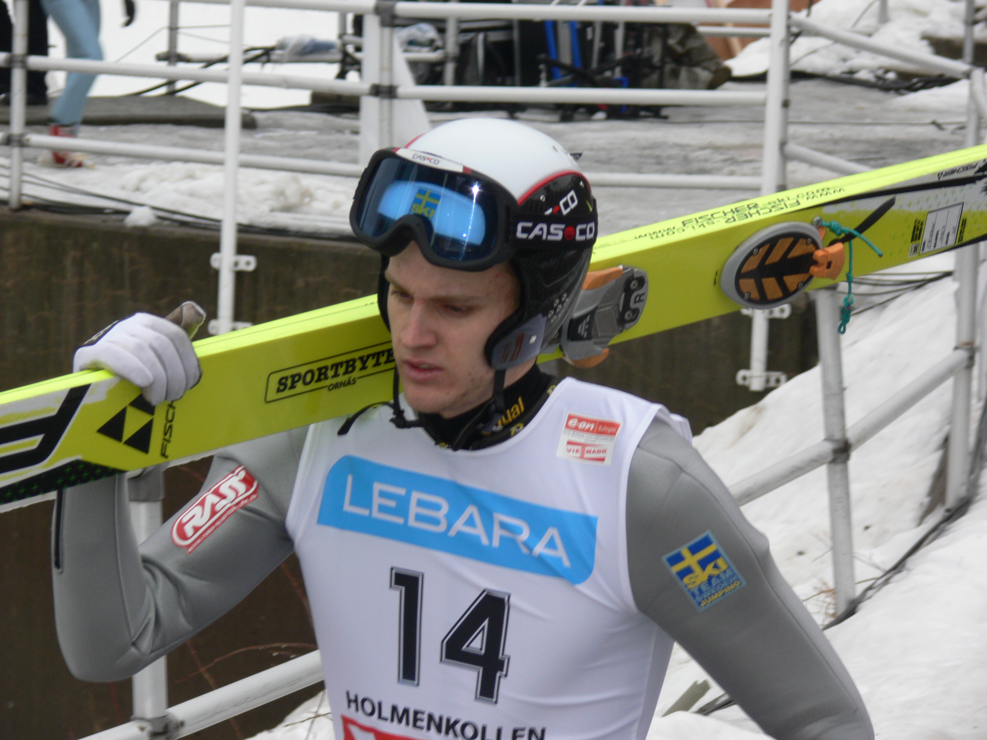 From the 2008 ski jumping World Cup event in Holmenkollen.